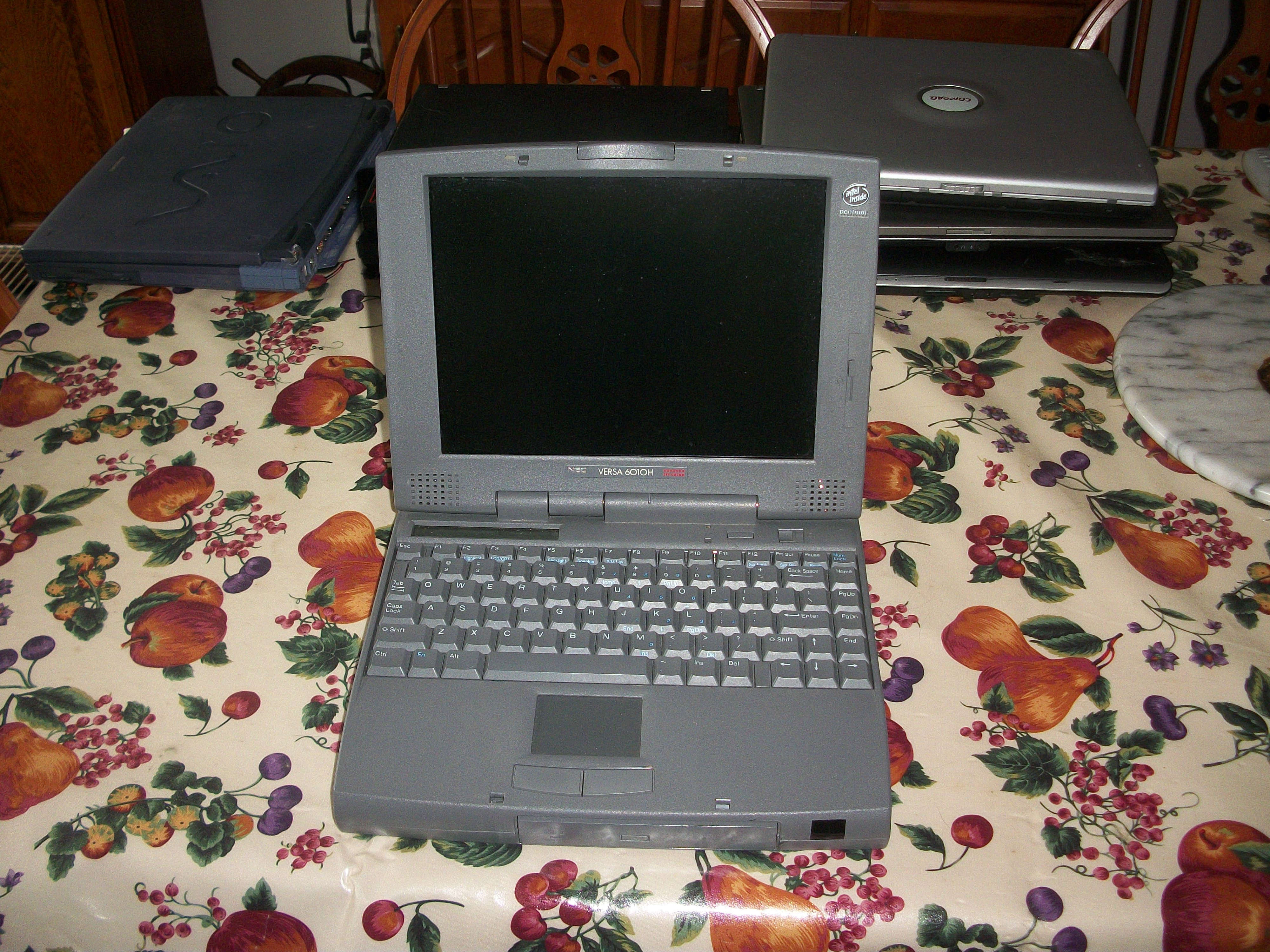 A NEC Versa 6O1OH notebook computer.